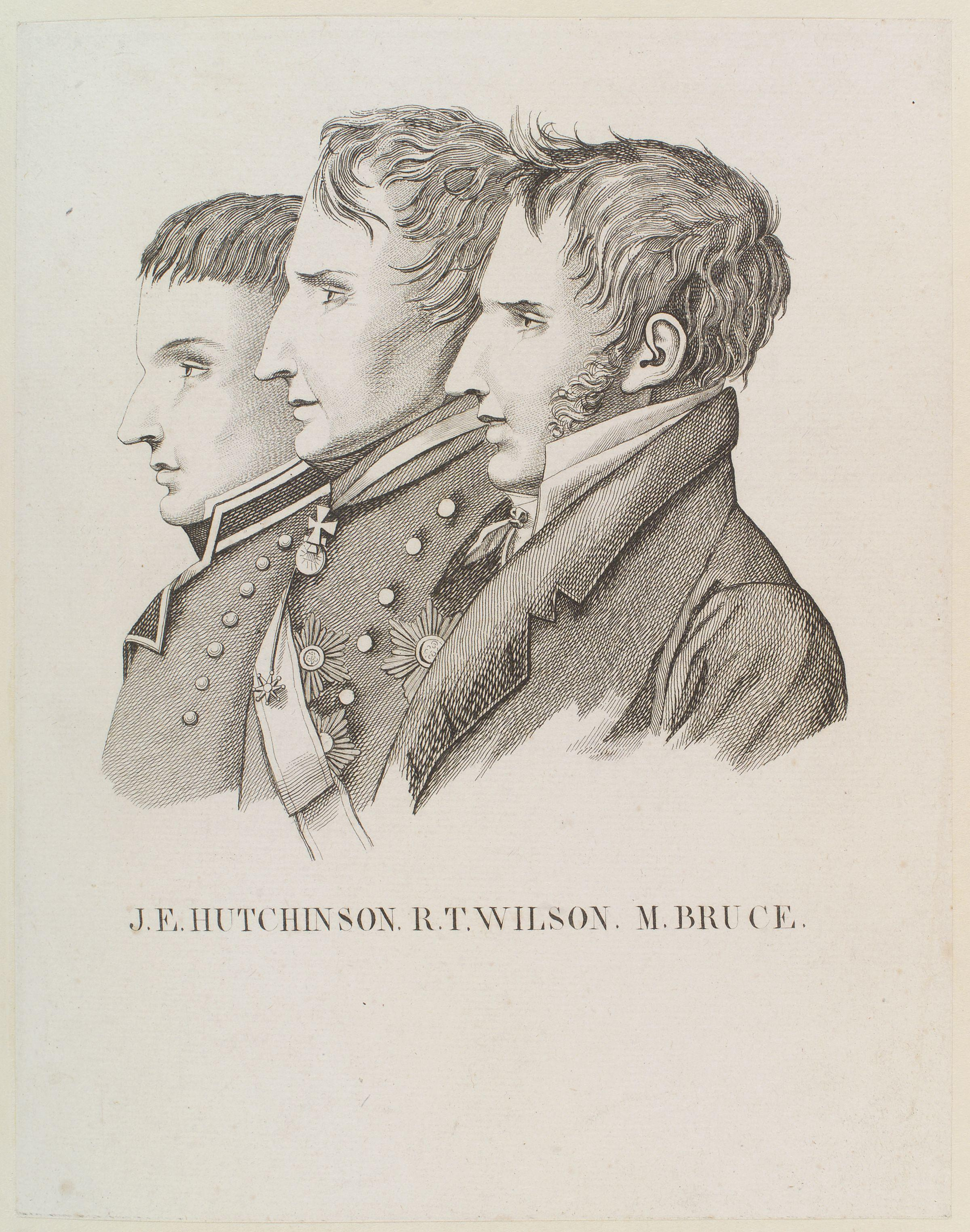 John Hely-Hutchinson, 3rd Earl of Donoughmore; Sir Robert Thomas Wilson; Michael Bruce, by unknown artist. The three defendants in the treason trial over the escape from France of the Comte de Lavalette. All images in this batch are listed as "unknown author" by the NPG, who is diligent in researching authors, and was donated to the NPG before 1939 according to their website.